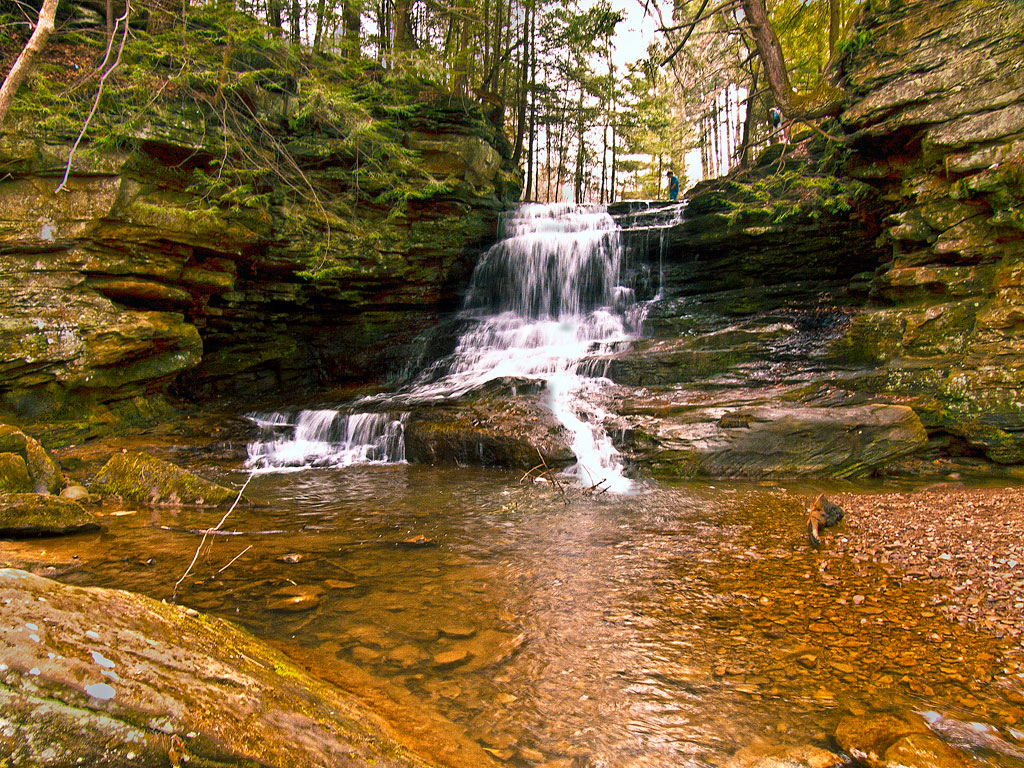 Base view of a waterfall on Honey Run southeast of Millwood in Butler Township, Knox County, Ohio, United States.